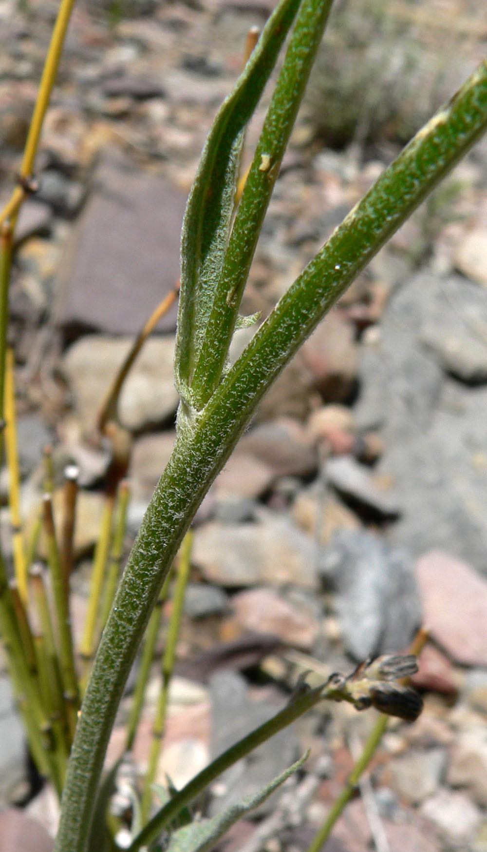 Crepis intermedia near road 592(?) about 2 km northeast of Mount Stirling, Spring Mountains, southern Nevada (elev. about 1900 m); although these individuals are less tomentose than usual for C. intermedia, the species is known to be highly variable, and the outer phyllaries are smaller than would be expected for C. occidentalis